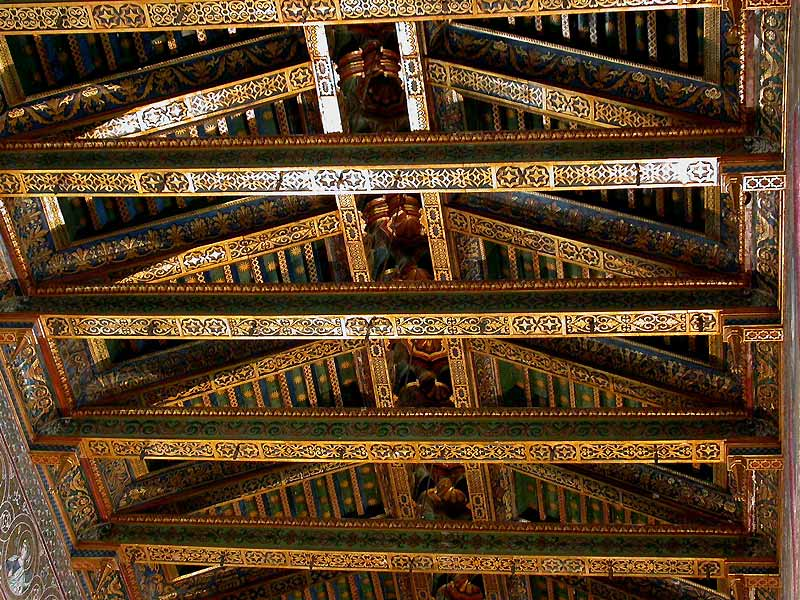 Arabian ceiling, restored after fire in 1811. Cattedrale di Monreale